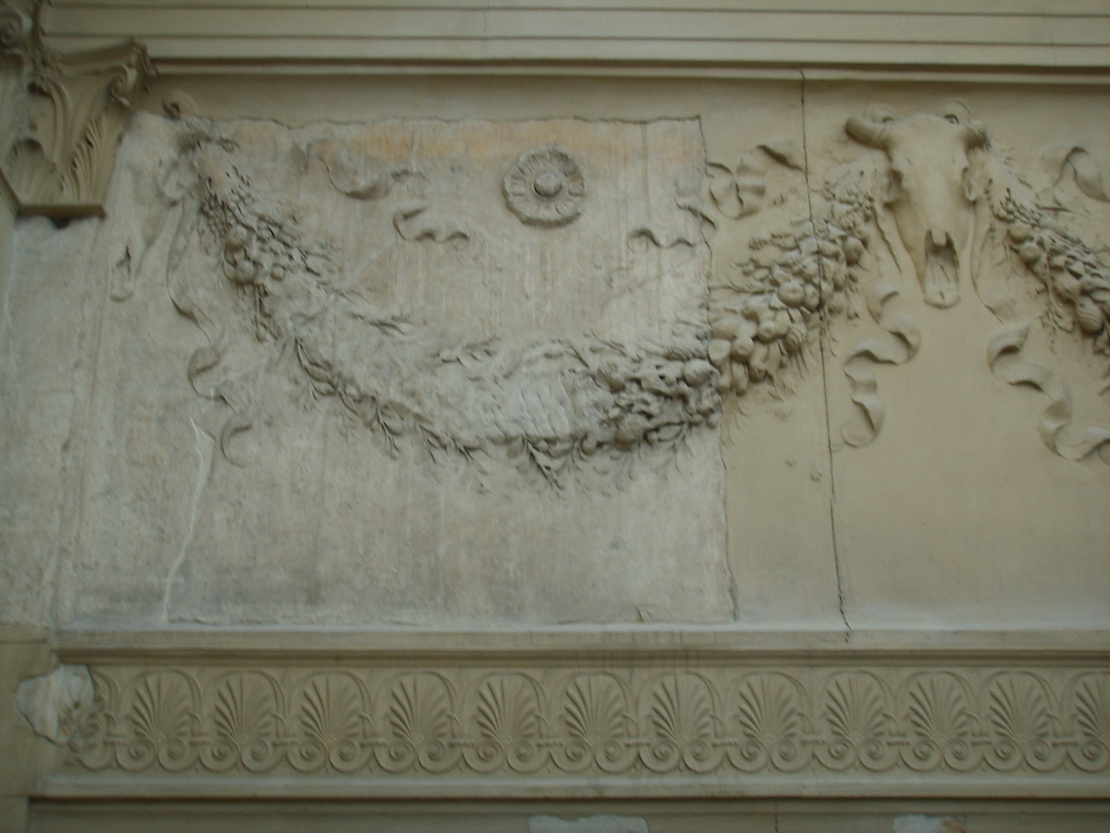 Ara Pacis, inside in Rome, Italy